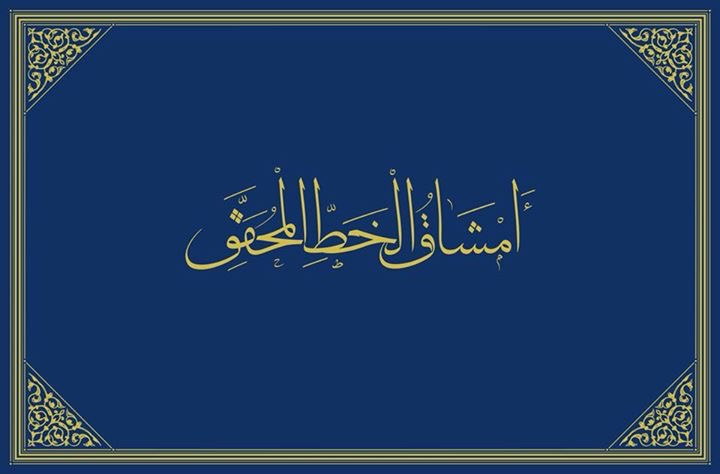 Front Cover of the Amshaq al-Khatt al-Muhaqqaq book